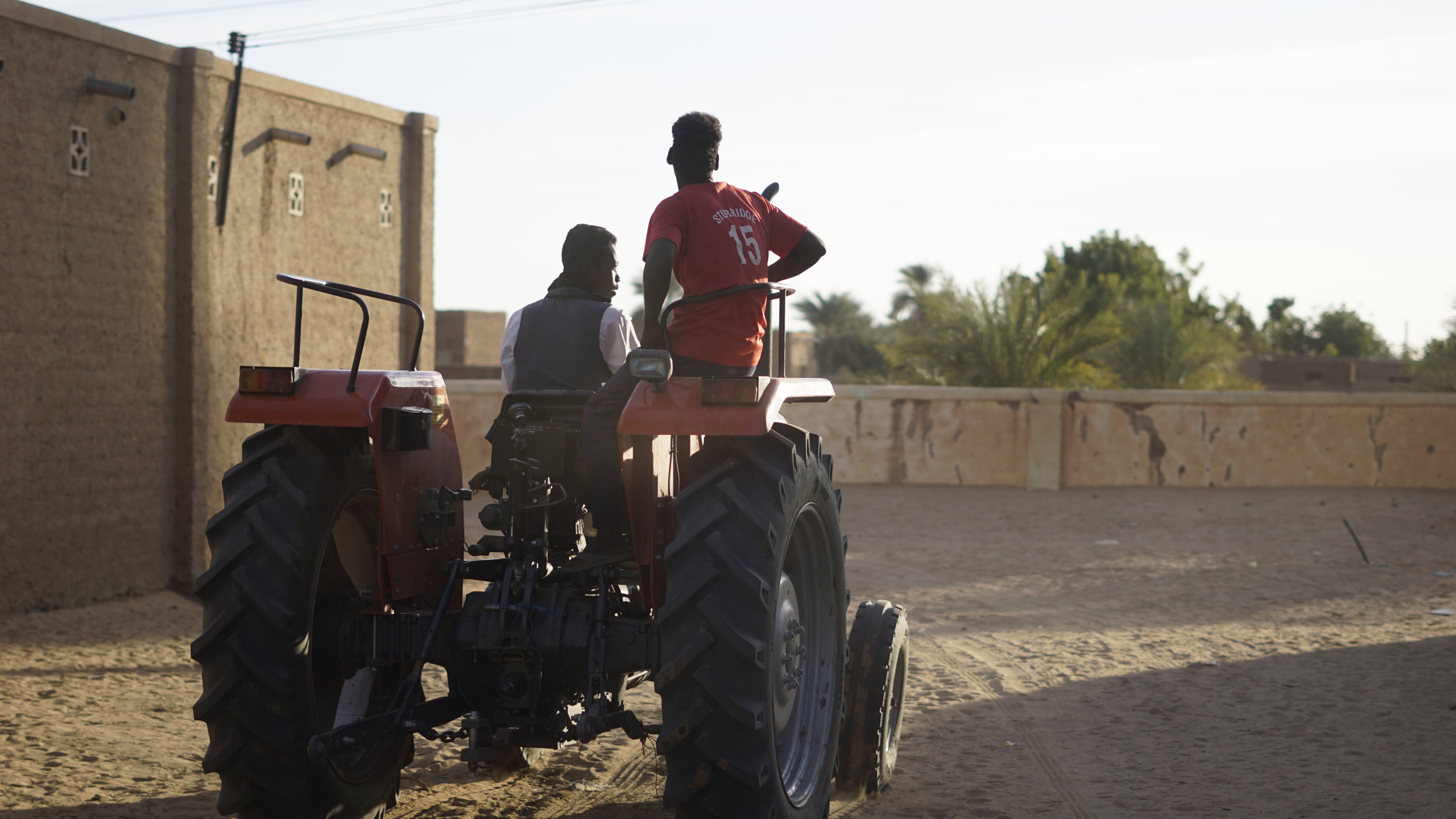 This is an image with the theme "Africa on the Move or Transport" from: Sudan